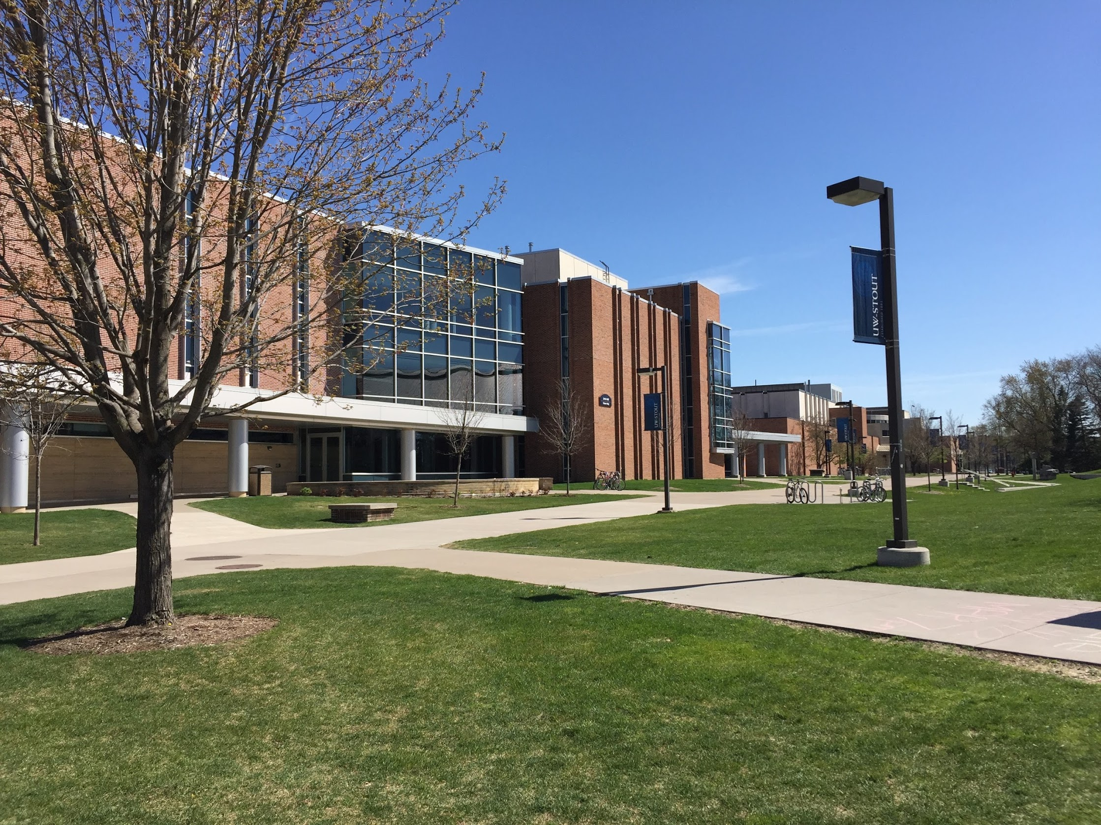 Jarvis Hall Science Wing on the UW-Stout campus.